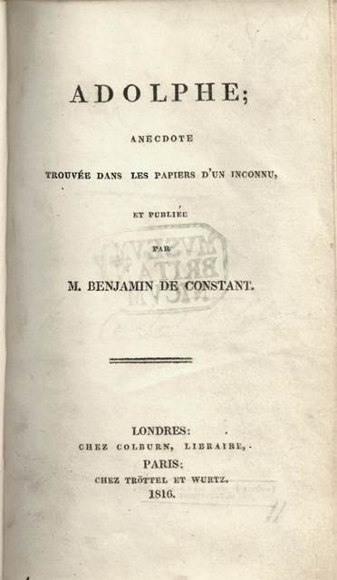 Title page from 1816 edition of Adolphe